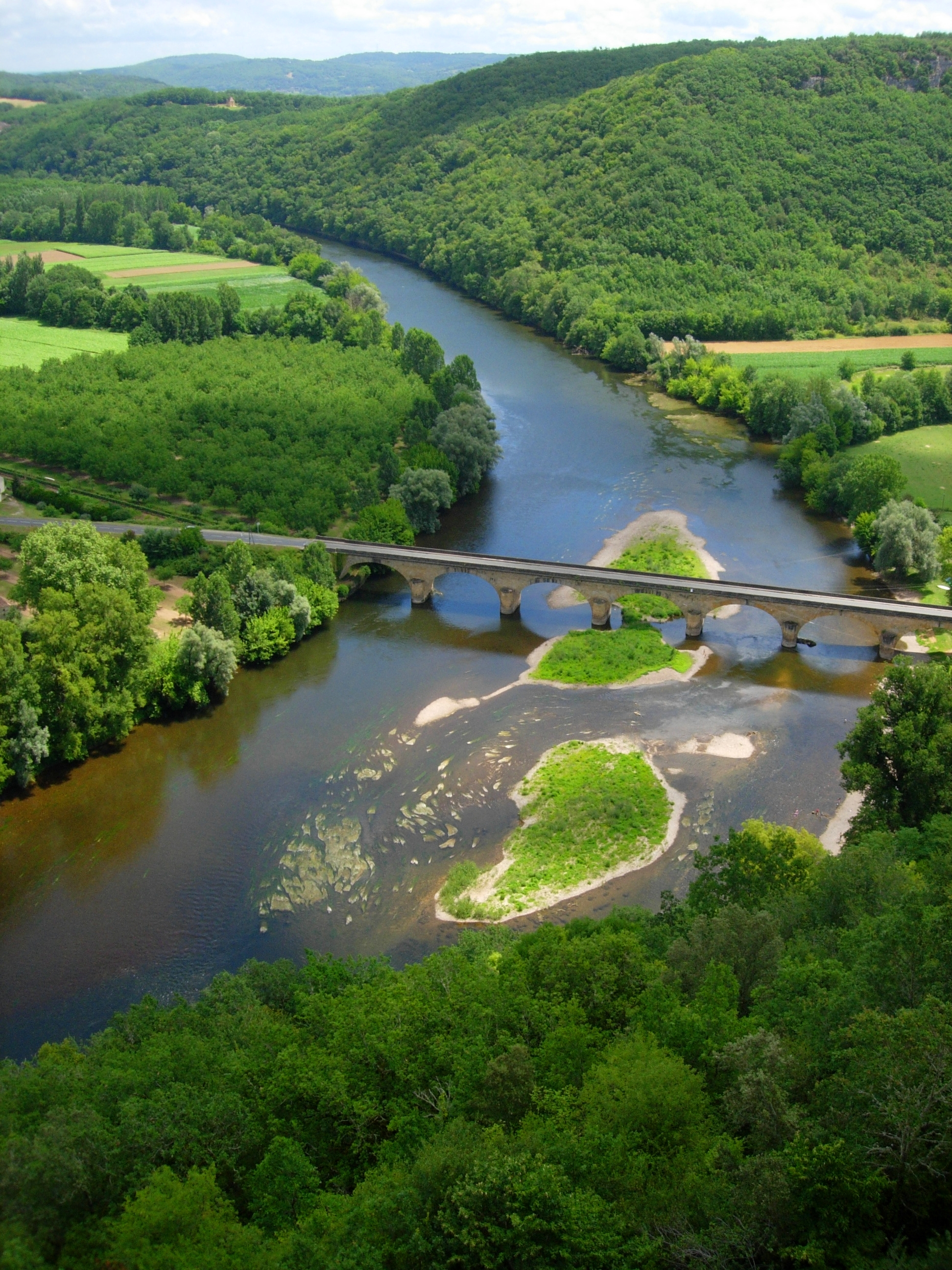 River Dordogne in Perigord, France, near Castelnaud-la-Chapelle and a bit south of Vézac. The bridge is the D57 road